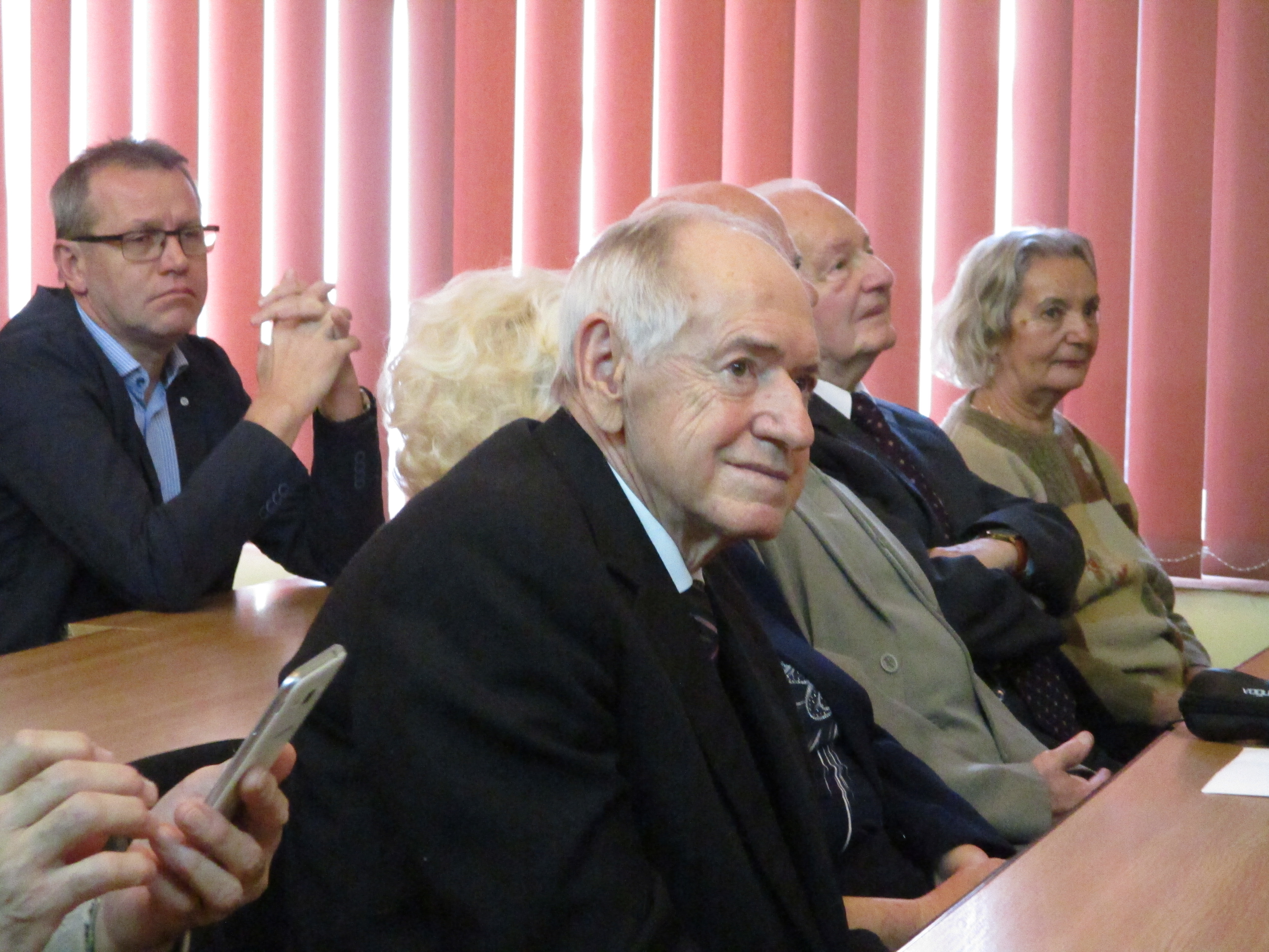 Csaba Gyenge (1940–) Hungarian mechanical engineer from Romania, external member of the Hungarian Academy of Sciences